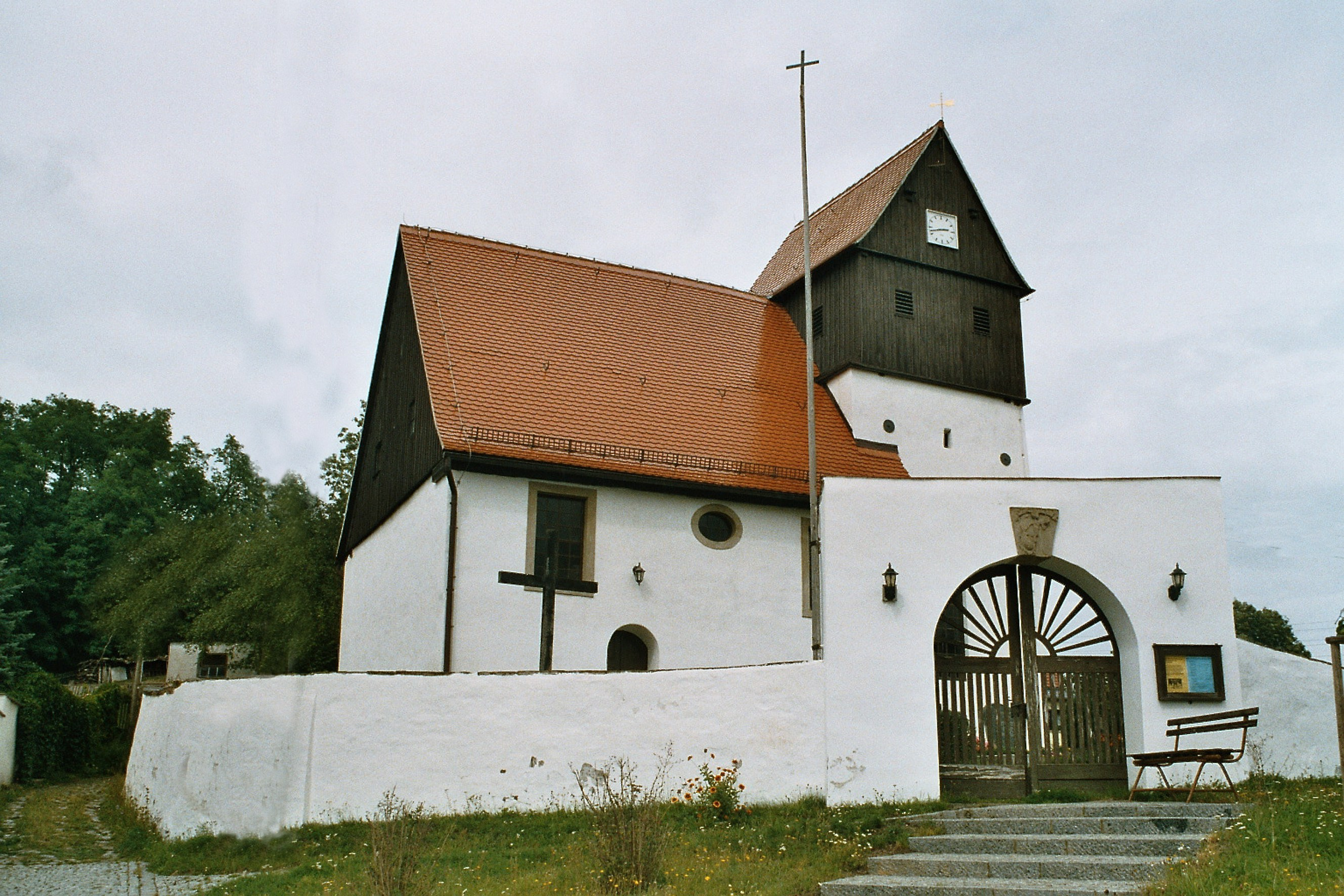 Niederndorf (Kraftsdorf), the village church